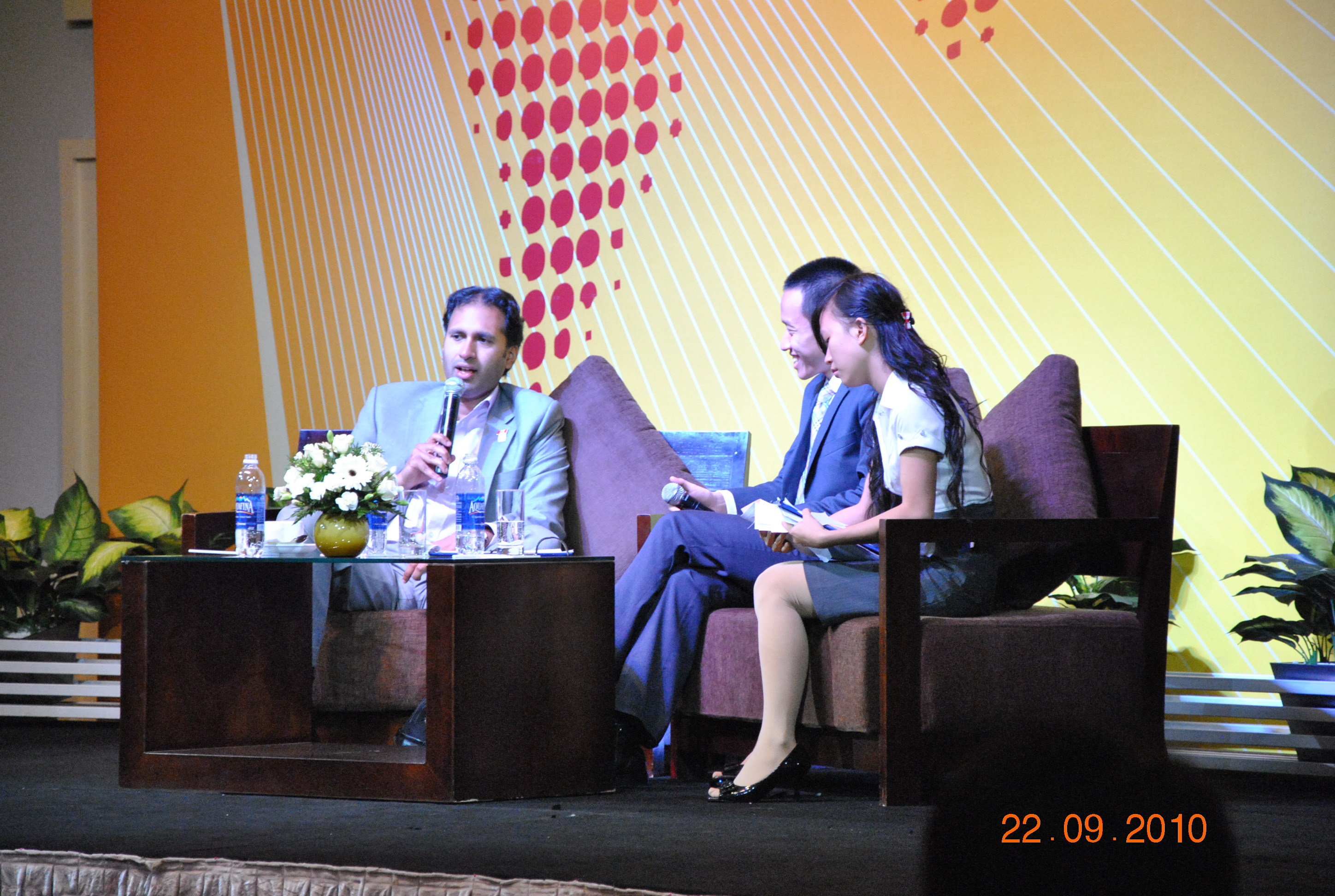 Photo taken of Consul General speaking to students at a seminar, HCMC